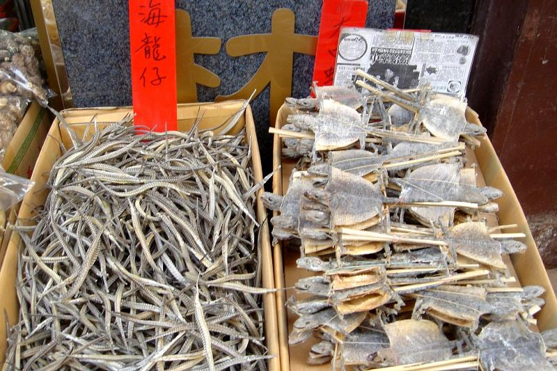 Sale of dried seahorses and lizards